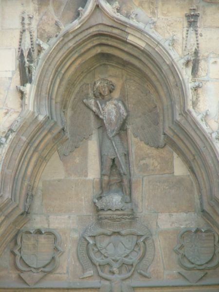 Saint Michael Church in Cluj-Napoca detail, Romania